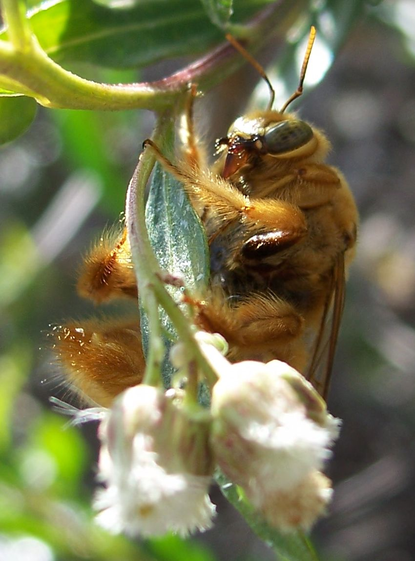 Valley Carpenter Bee. Male. Made in San Jose, California, USA.